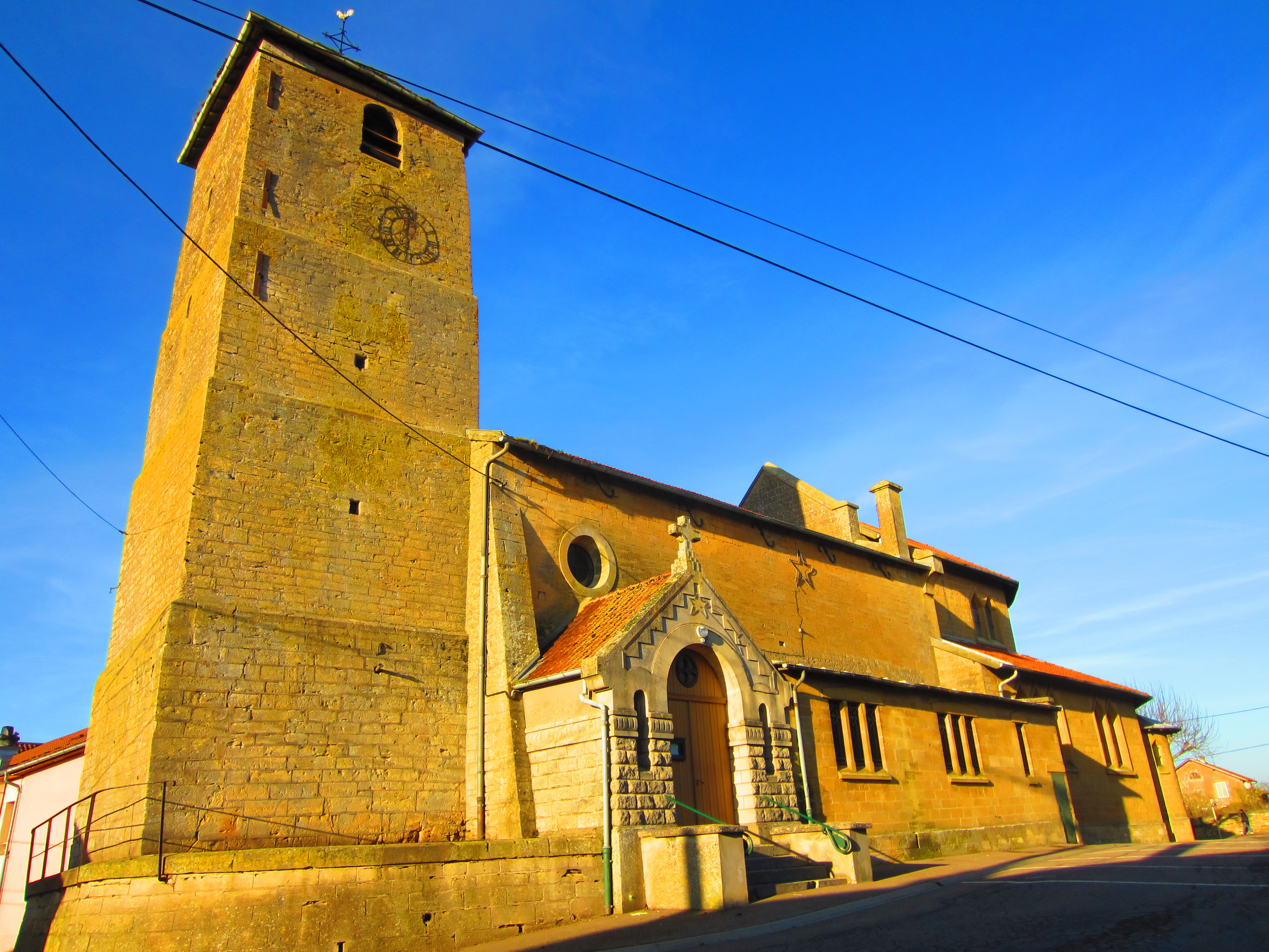 Bouligny church